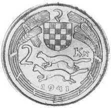 Banknote of 2 kn (1941), proof. Front side.